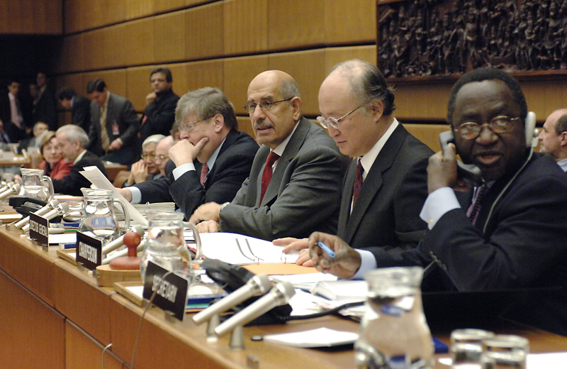 Inside the Board room, IAEA Director General ElBaradei (center) is flanked by Mr. Olli Heinonen, Deputy Director General for Safeguards (left), and Japan Ambassador Yukiya Amano, Chairman of the IAEA Board.